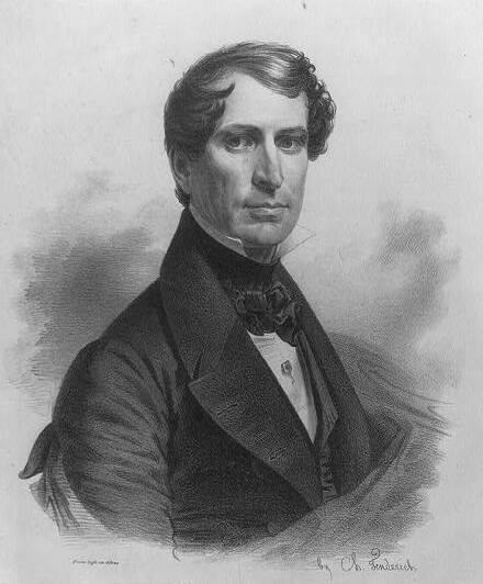 Portrait of Richard M. Young